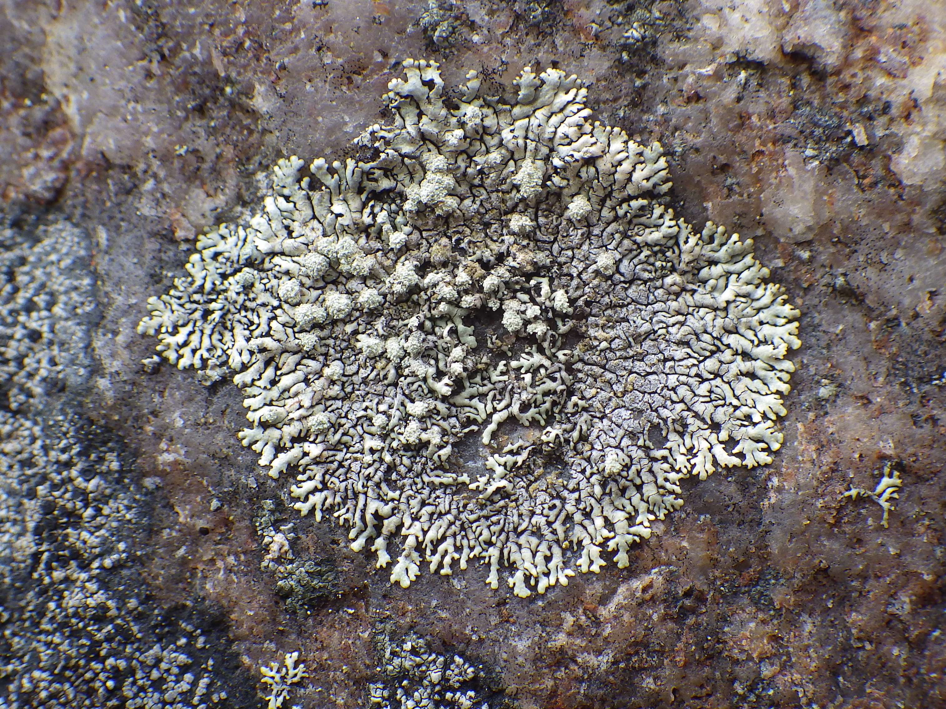 Xanthoparmelia mougeotii (Schaerer) Hale Image location: Serra de São Mamede, Portugal Recognized by sight For more information about this, see the observation page at Mushroom Observer.